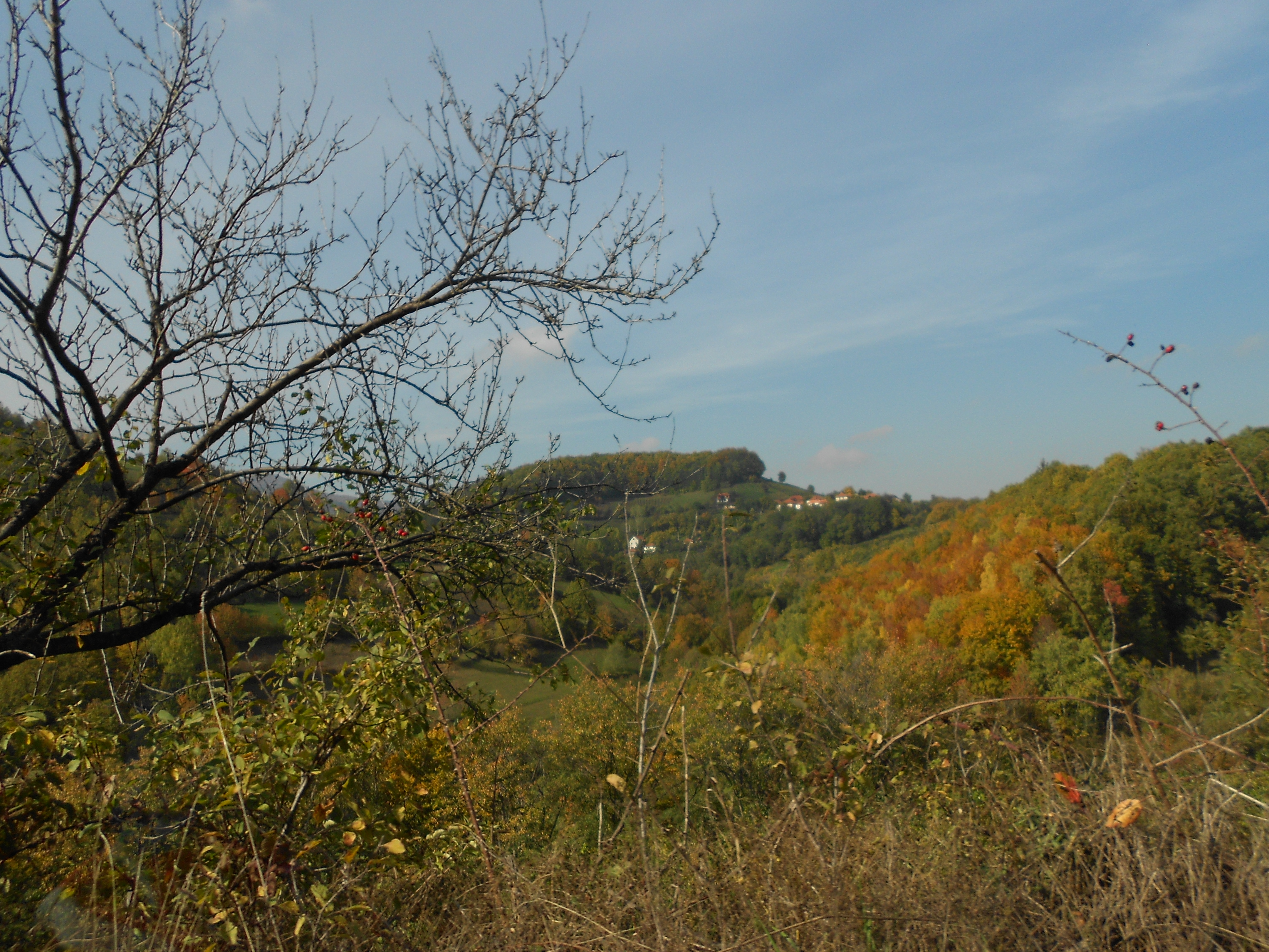 Kocine